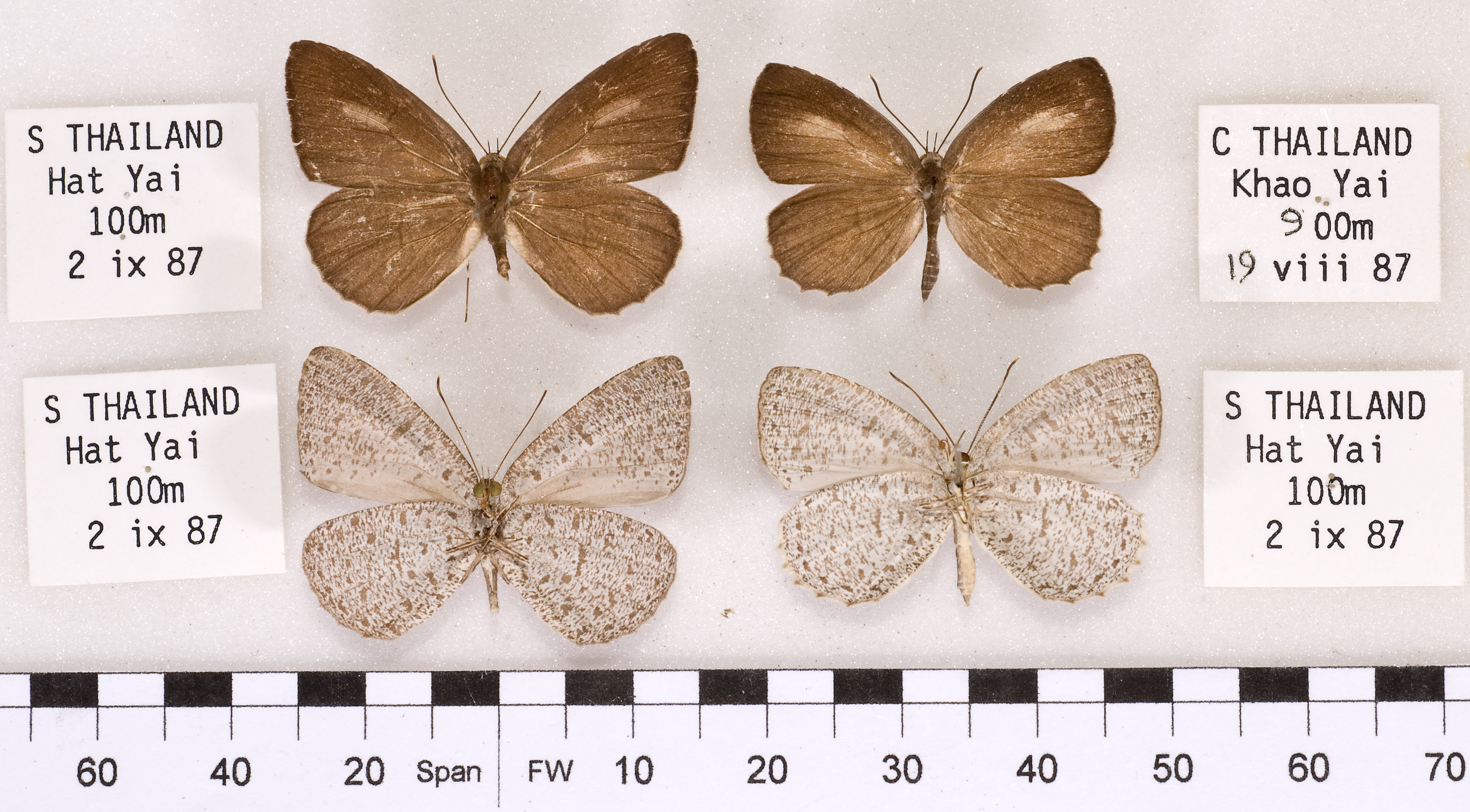 Alloyinus unicolor, male, female, set specimens, Thailand, Alan Cassidy photo.